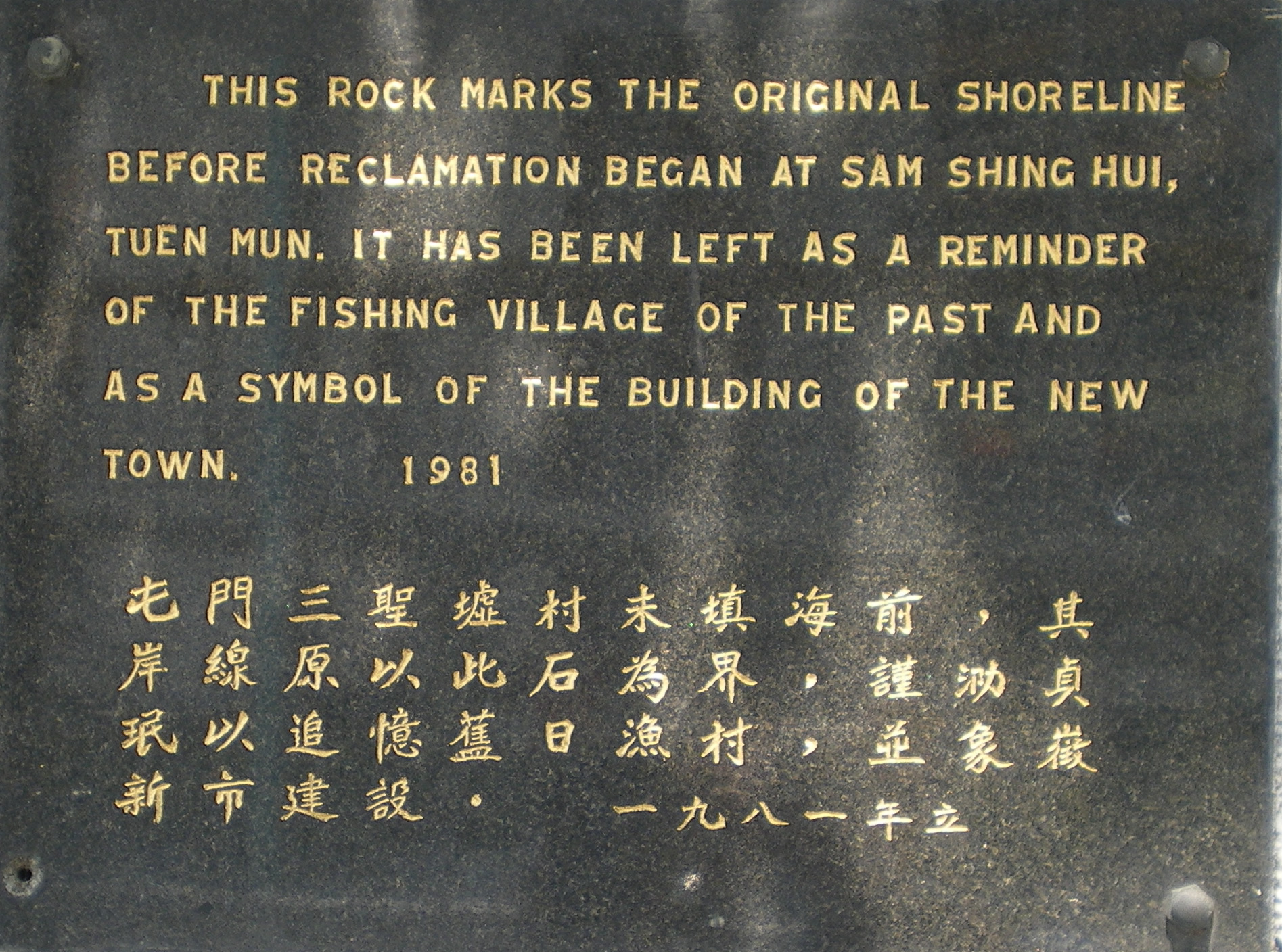 Stone at Sam Shing Hui under Sam Shing Temple